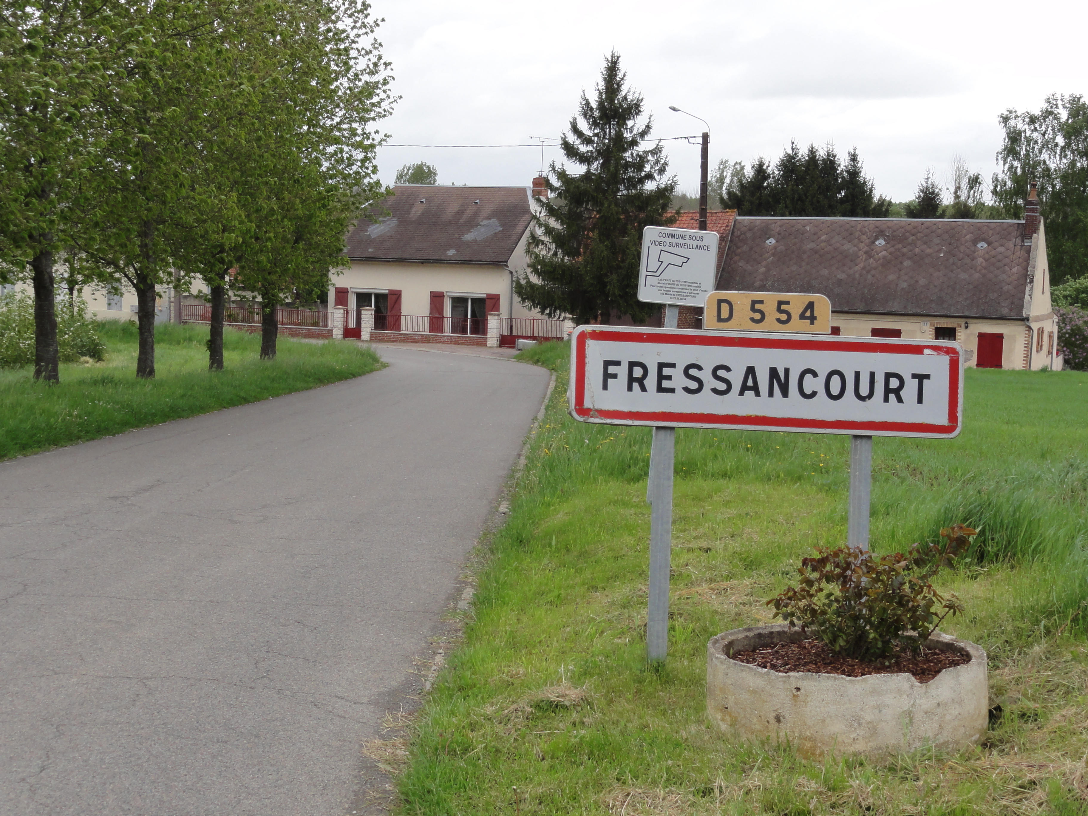 Fressancourt (Aisne) city limit sign